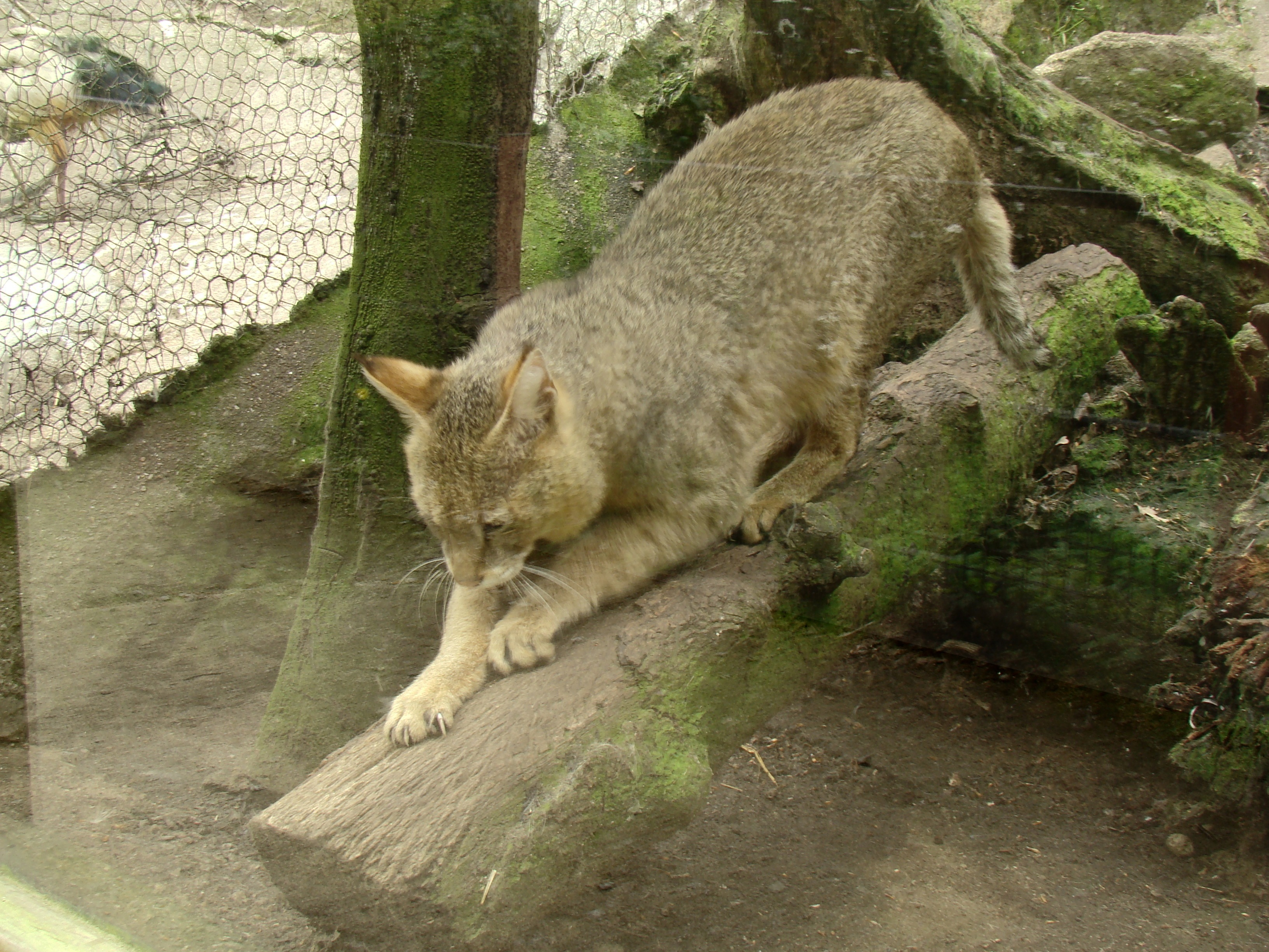 Jungle Cat (Felis chaus) at Pont-Scorff Zoo.